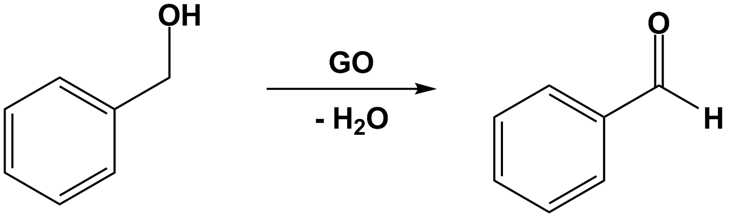 Graphene oxide-catalyzed oxidation of alcohols to their corresponding aldehydes in a recent example of carbocatalysis.